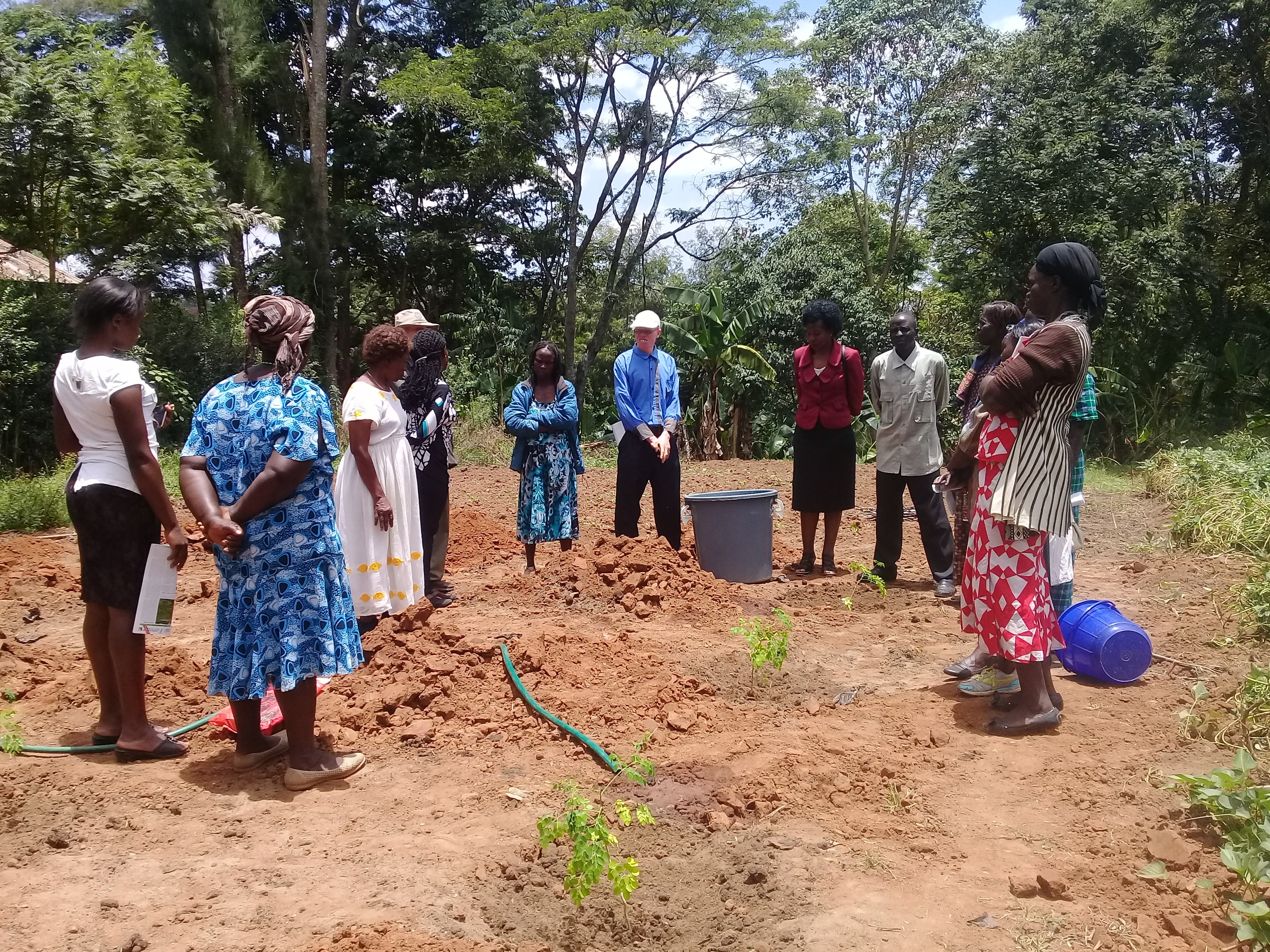 The community was also facing poverty and starvation. No need to panic. Rachel passionately begun to educate the community on environmental conservation and its implication on livelihoods and posterity. She is a tree planting fanatic and has planted over 1,000,000 trees on her farm in the last 10 years and reclaimed a 5 acres wetland. The Moringa tree planting pilot she carried out in 2017 was particularly welcome, as it is fast growing and the trees leaves and pods are highly nutritious when consumed. Conservation with a food - how genius! For this, she and her daughter Carole formed a Self Help Group comprising of rural slum women and persons living with albinism that she gave free seedlings. The plan is to reduce malnutrition in the homesteads and sell surplus produce together. This is an image of "African people at work" from Kenya